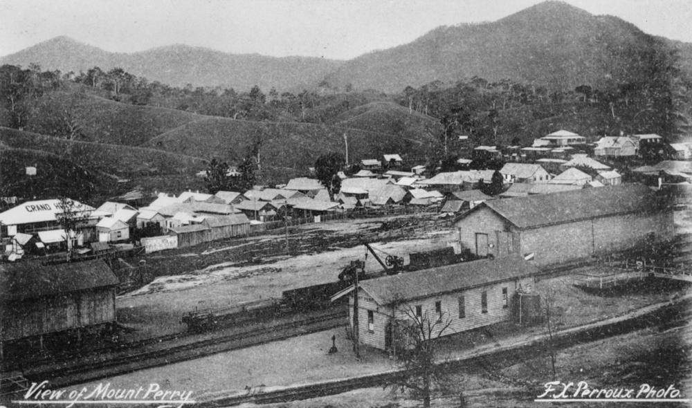 View of Mount Perry, 1907 Taken from behind the railway station.